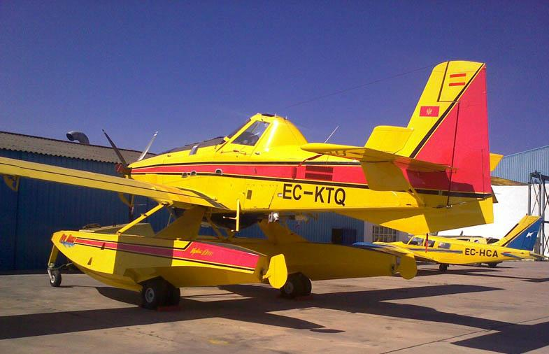 Montenegrin police AT-802A Fire Boss firefighting plane at Golubovci